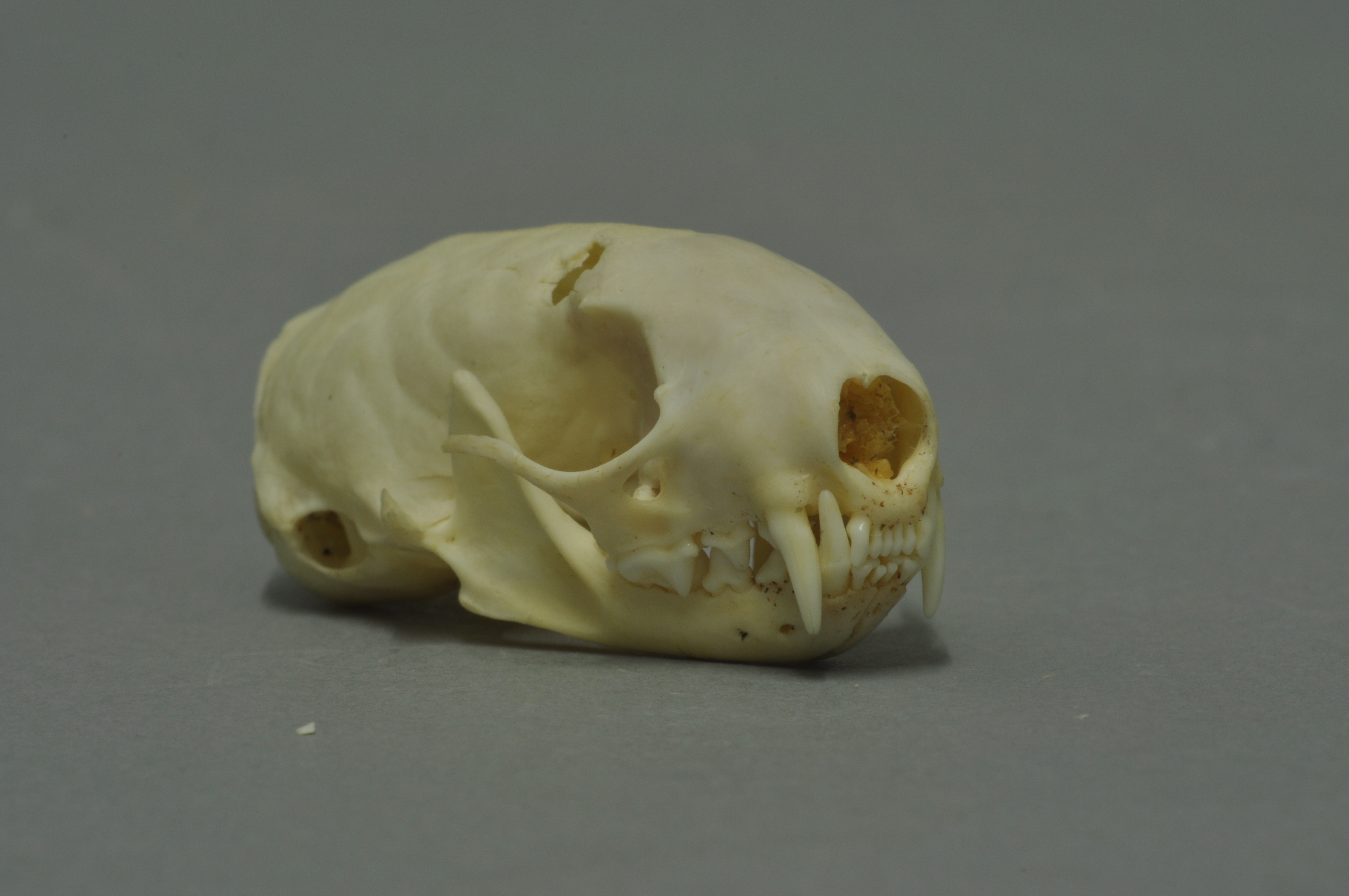 Stoat Mustela erminea , skull, Coll. Museum Wiesbaden